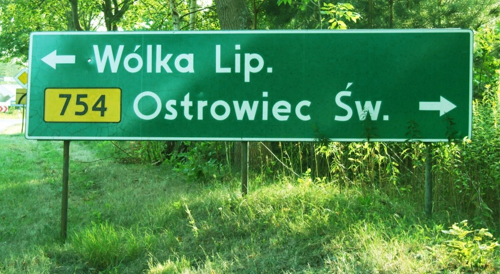 Voivodeship road No. 754 sign.